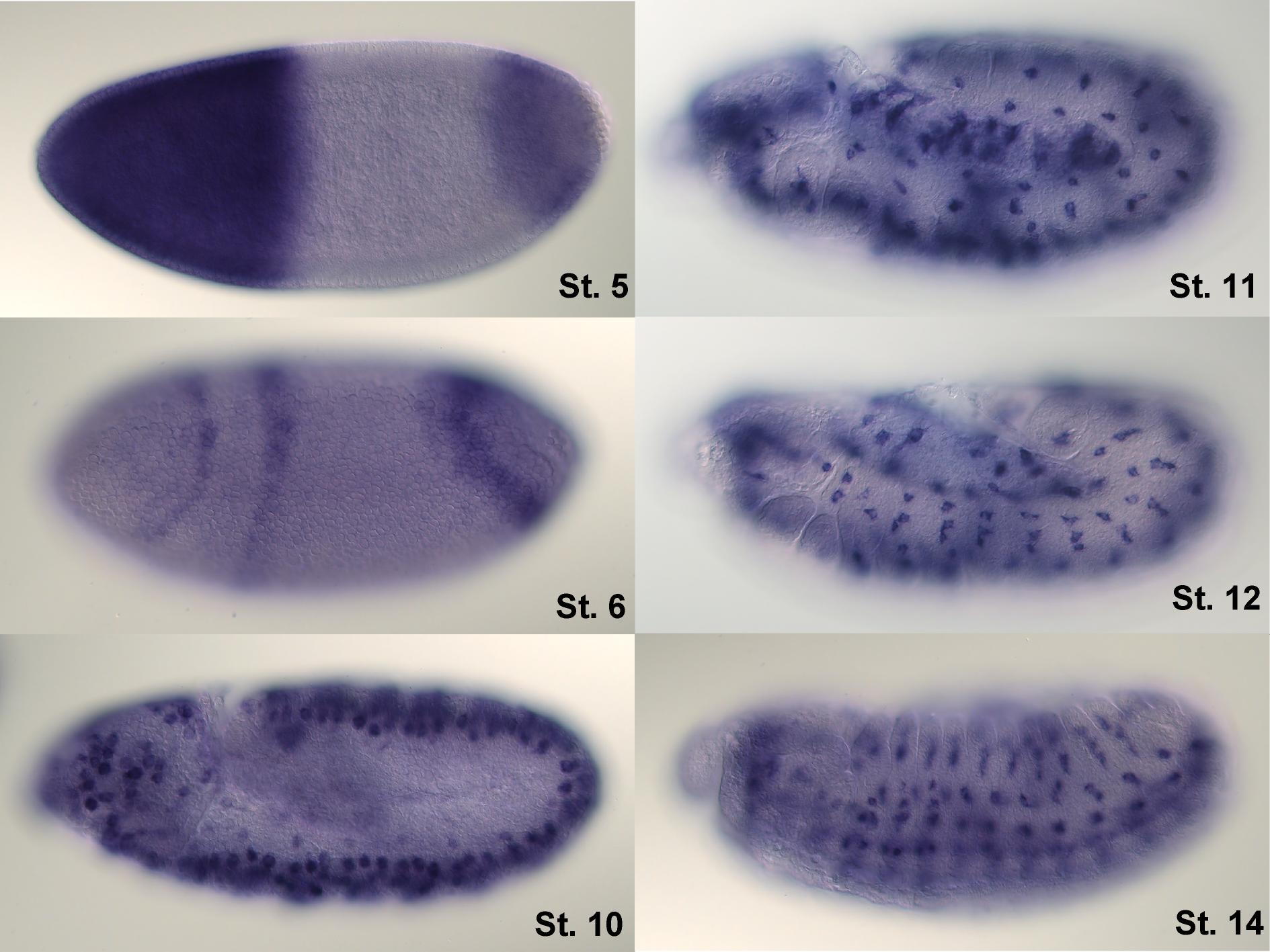 in situ-Hybridization of wild type Drosophila embryos, self-made staining and pictures.